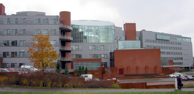 Innopoli business park in Espoo.